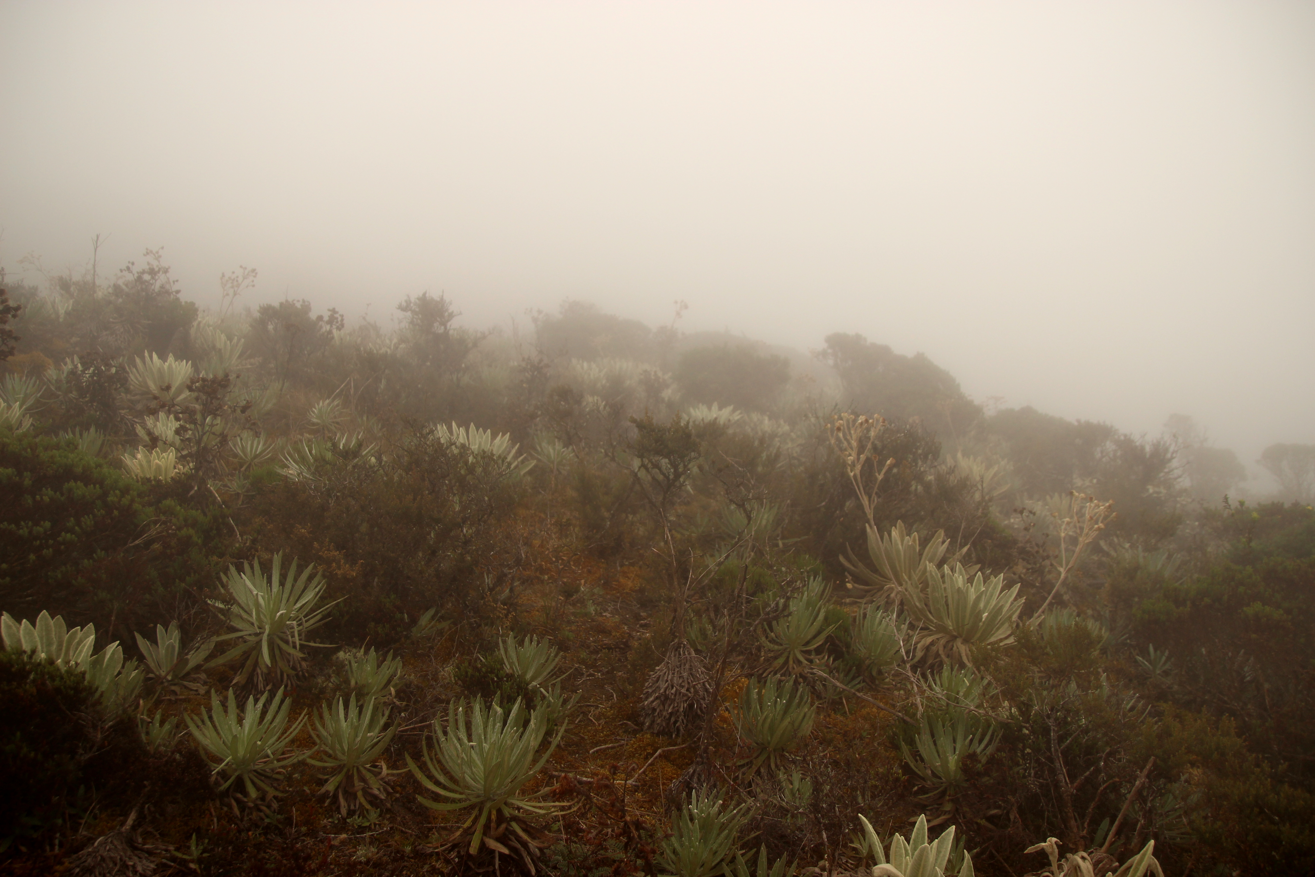 Typical venezuelian Paramean plant comunity, mainly composed of giant rosette plants (Frailejon, Espeletia sp., asteraceae), shrubs (ericaceae) and grasses. Páramo San José, Merida state, Venezuela. The fog is also typical of this area.